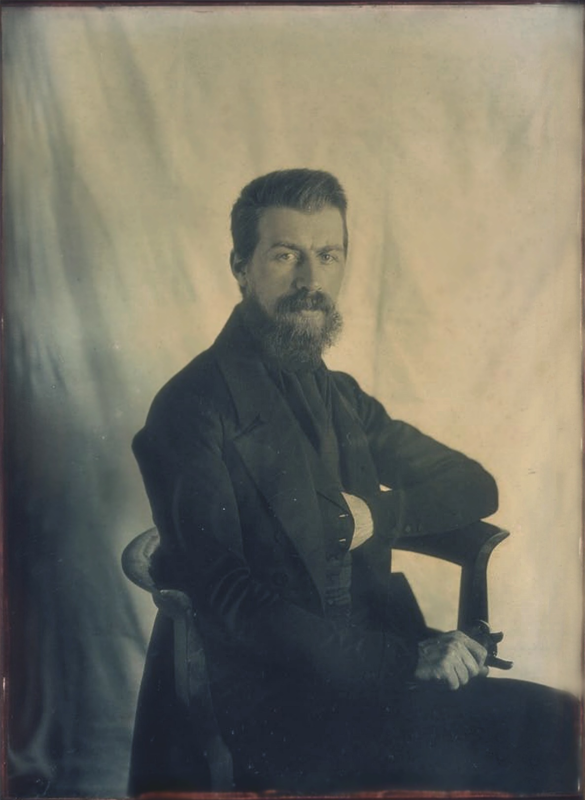 Peter Wilhelm Friedrich von Voigtländer (1812-1878), Austrian optician; Daguerreotype, 24,2 × 18,7 cm